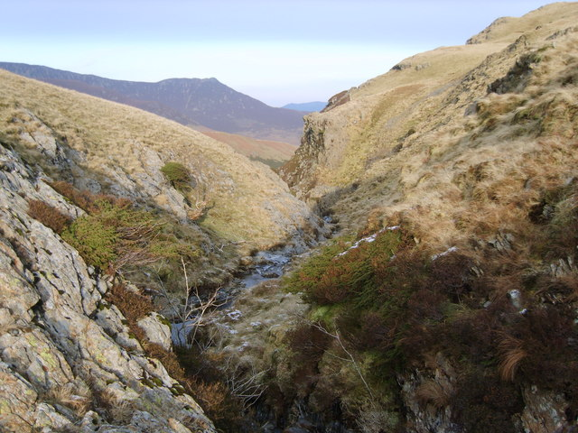 Scope Beck Near Littledale Crags. Causey Pike seen through the gap.